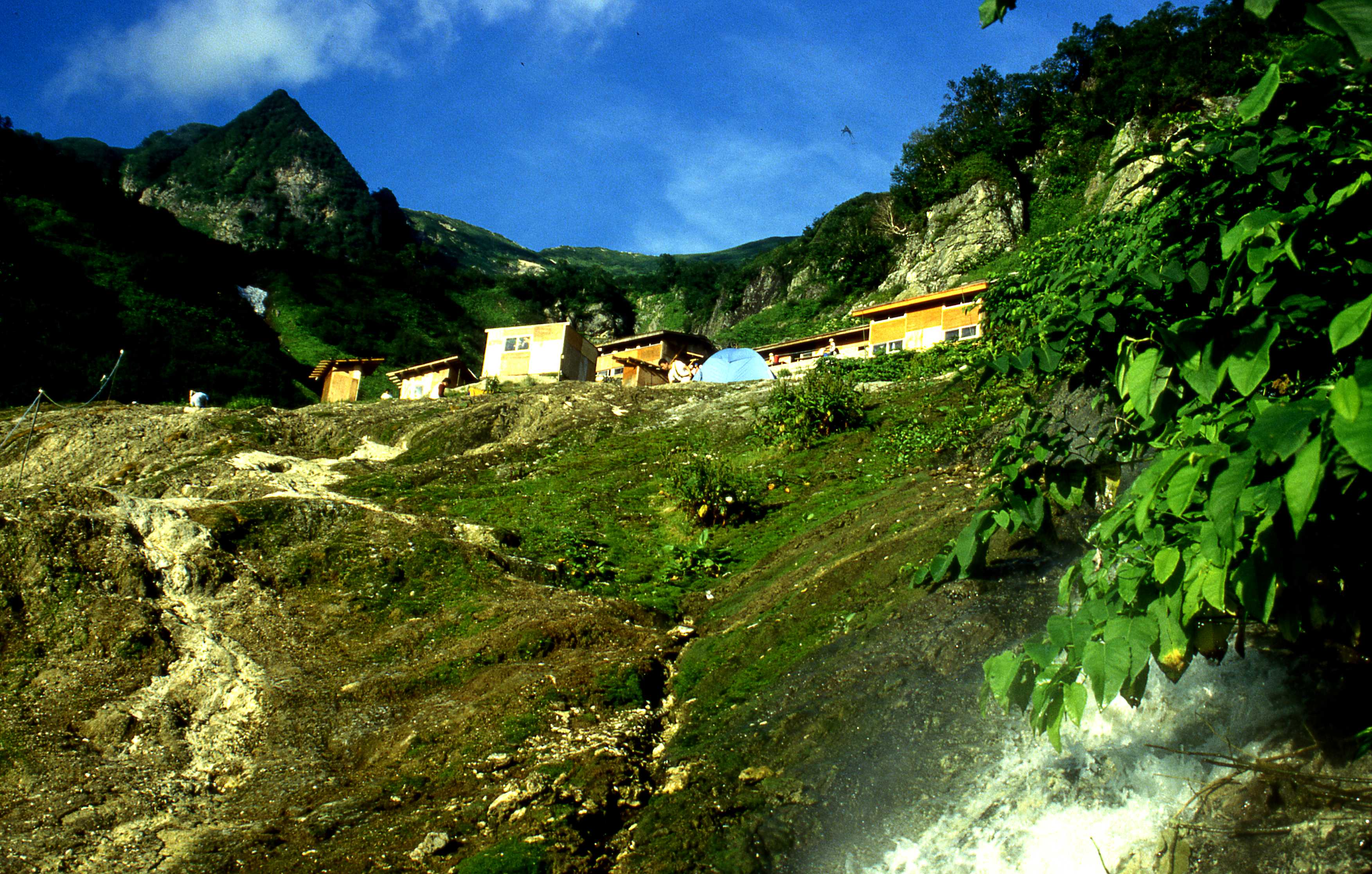 Hakuba Yari Hot Spring in Hida Mountains, Japan